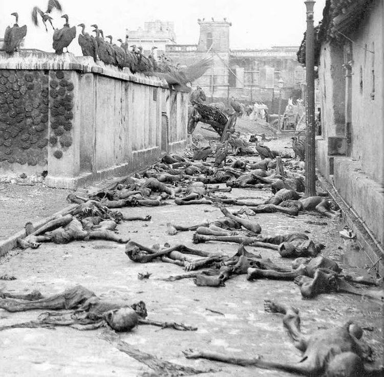 Vultures and corpses in the street of Calcutta after the Direct Action Day, August 1946. See Life Magazine.